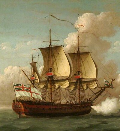 HMS Brune captures French Ship L'oiseau. October 1762. Seven Years War